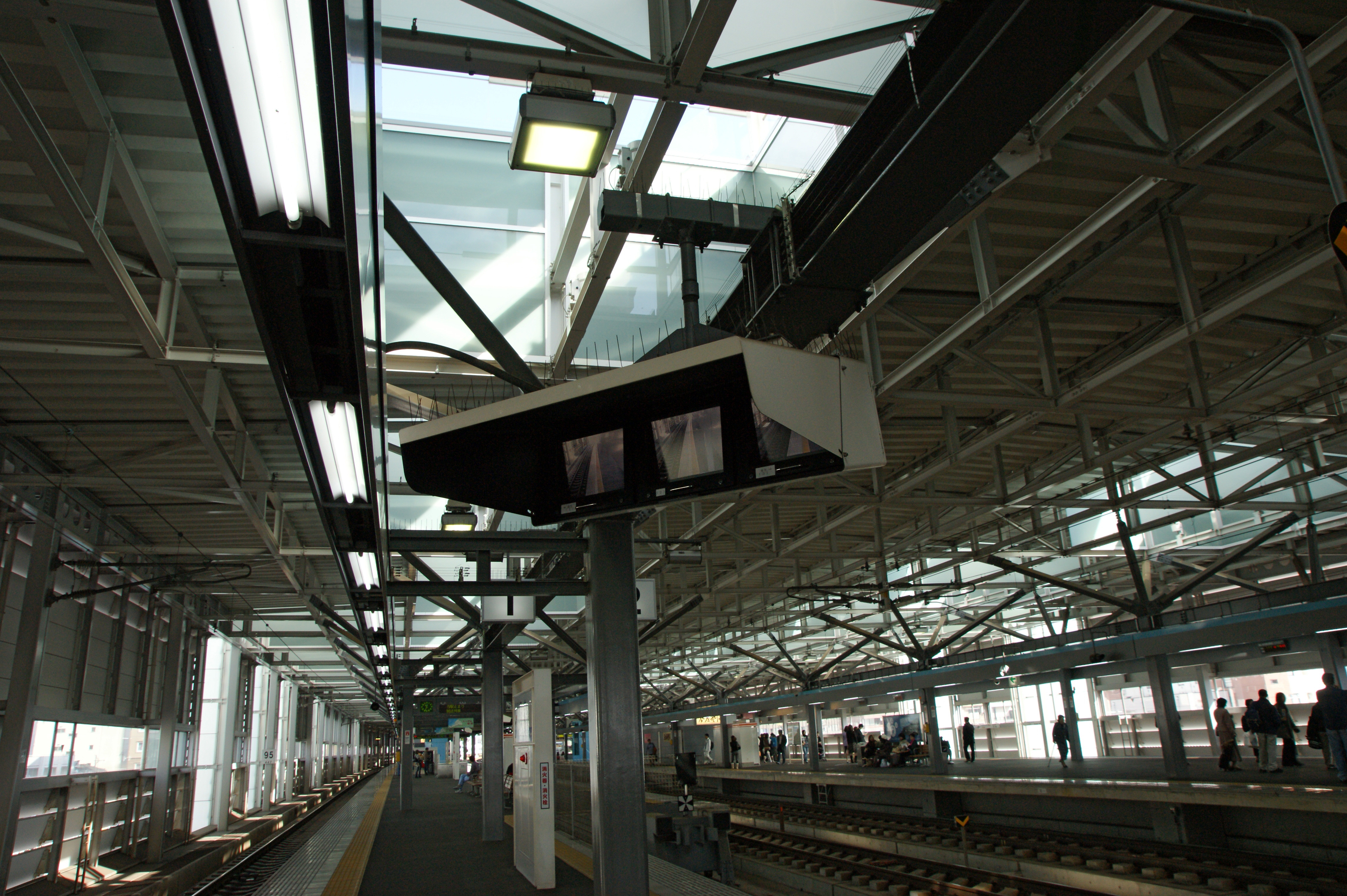 JR West Fukui Station, Fukui, Fukui prefecture, Japan